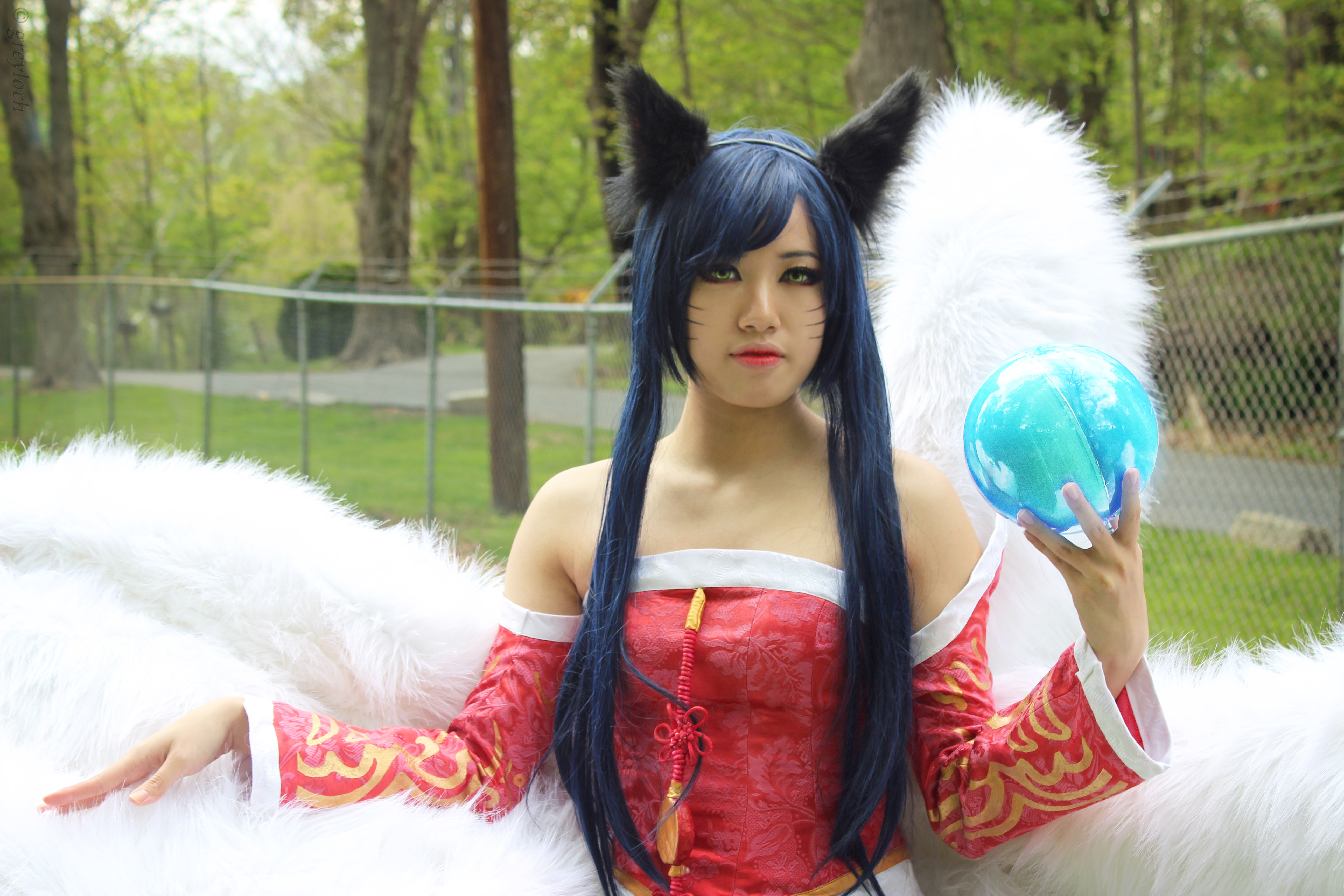 Unfortunately, this was the only photo I got of this cosplayer as some of the other photographers were... not that willing to share her time with the rest of us. Tsk, Tsk... Bad other photographers. :-P I did a lot of PS magic on the ball she is holding (Topaz Adjust, outer and inner glows) to make it look like the sphere the character uses in the game.